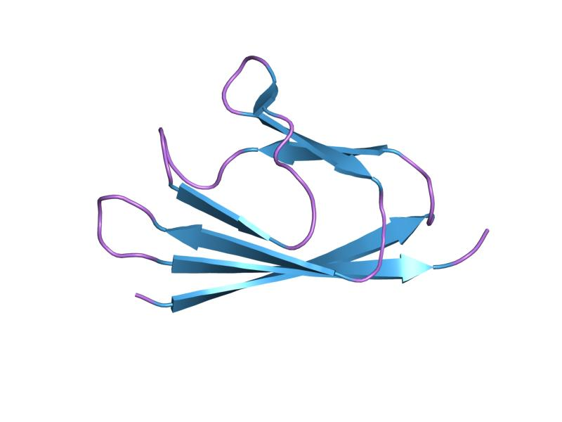 Cartoon representation of the molecular structure of protein registered with 1xak code.